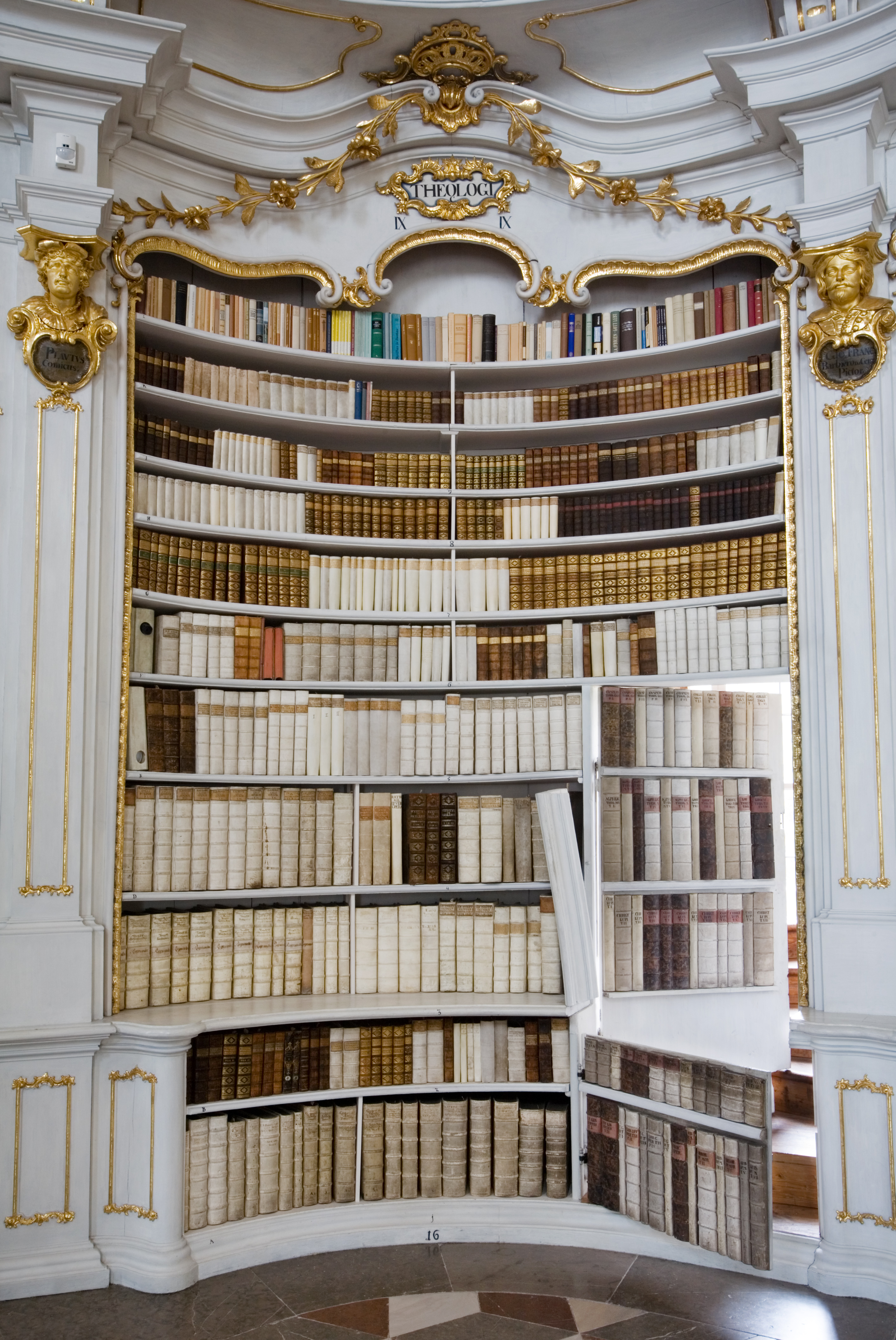 Books and bookshelves. Admont Abbey Library, Austria